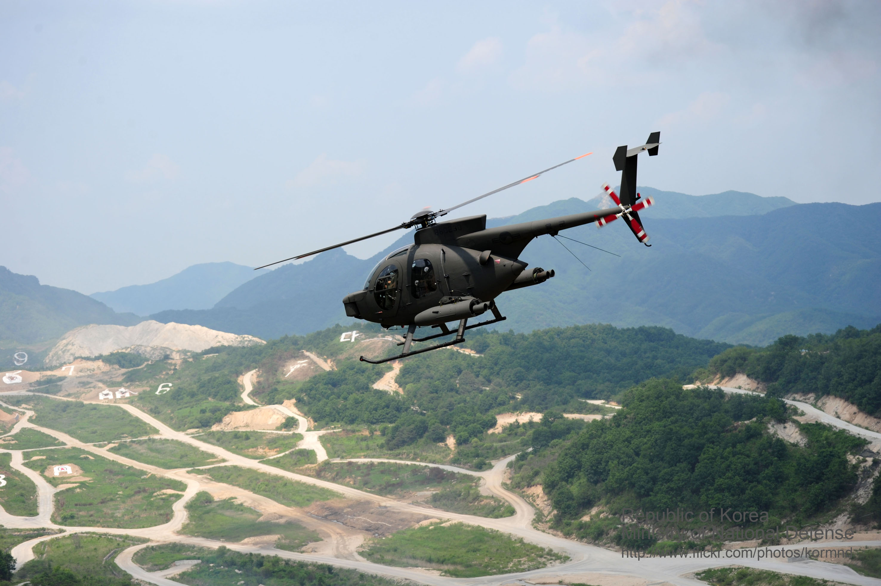 2012.6 국군 통합화력전투훈련 Rep.of Korea Armed Forces Joint Combat Fire Drill